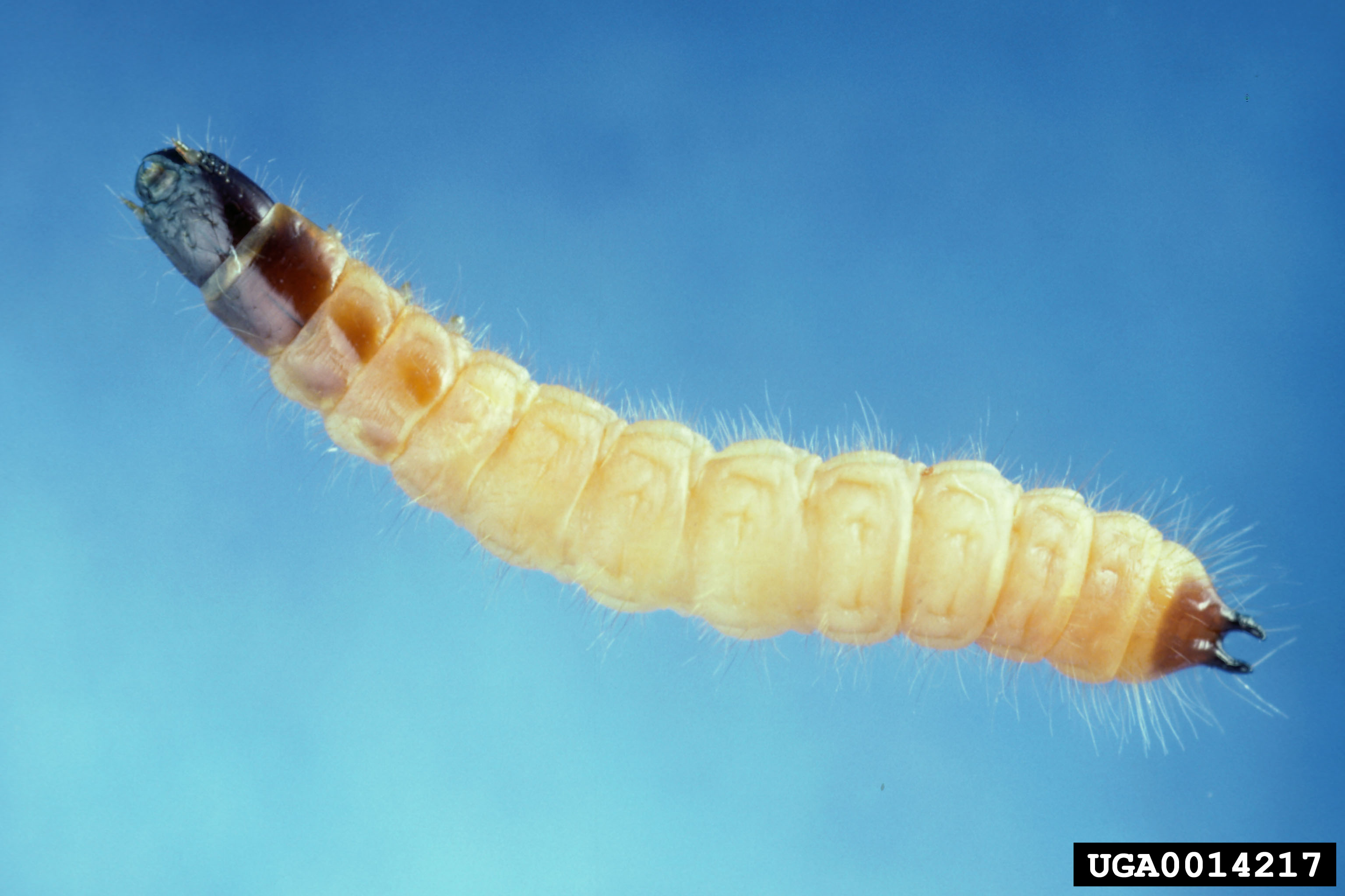 Thanasimus dubius (Fabricius) larva